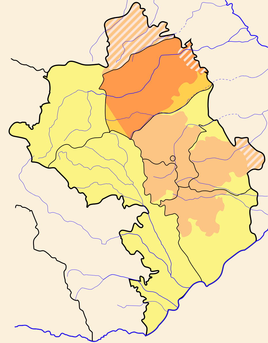 Rayon of Mardakert in NKR